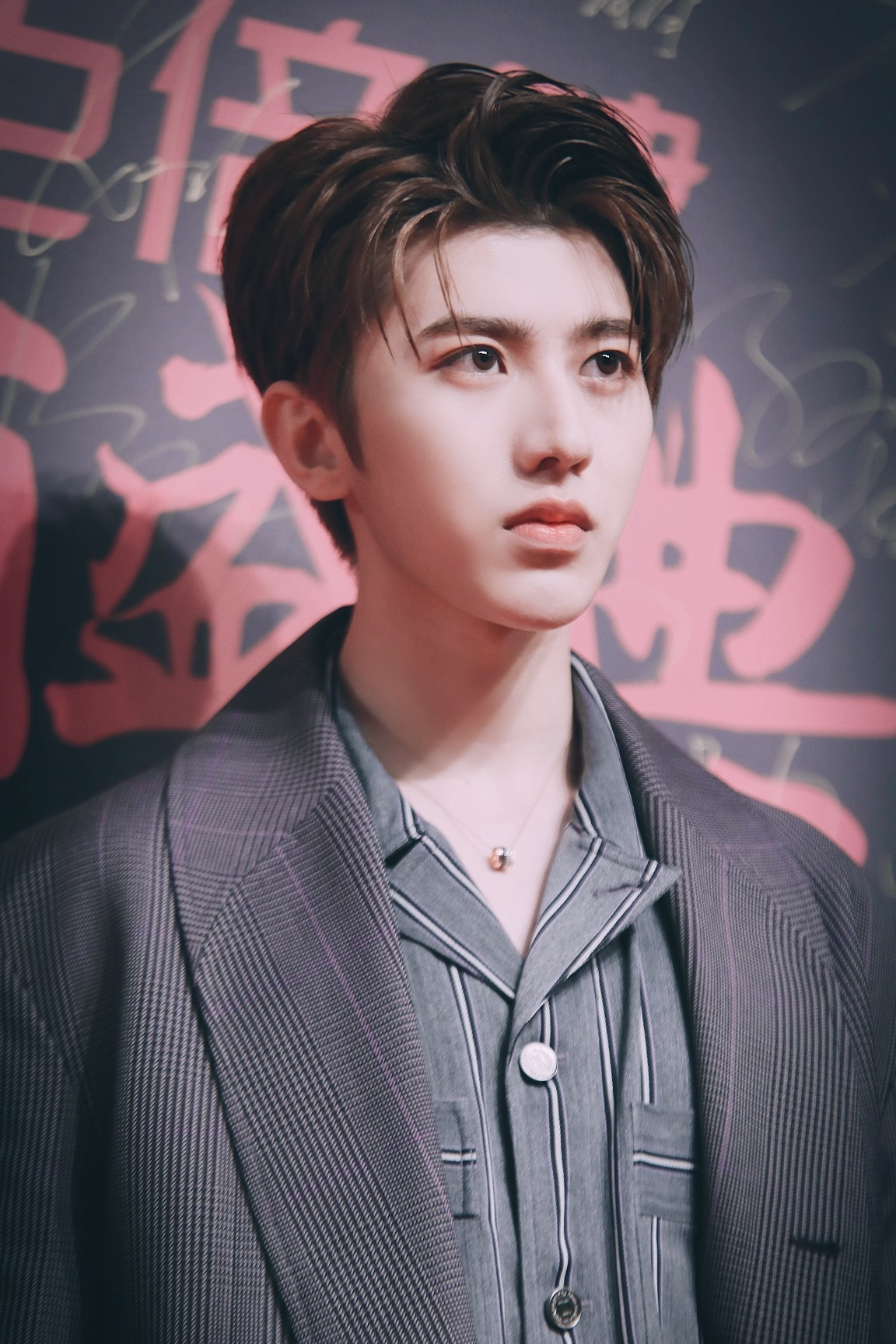 Cai Xukun in 2018.